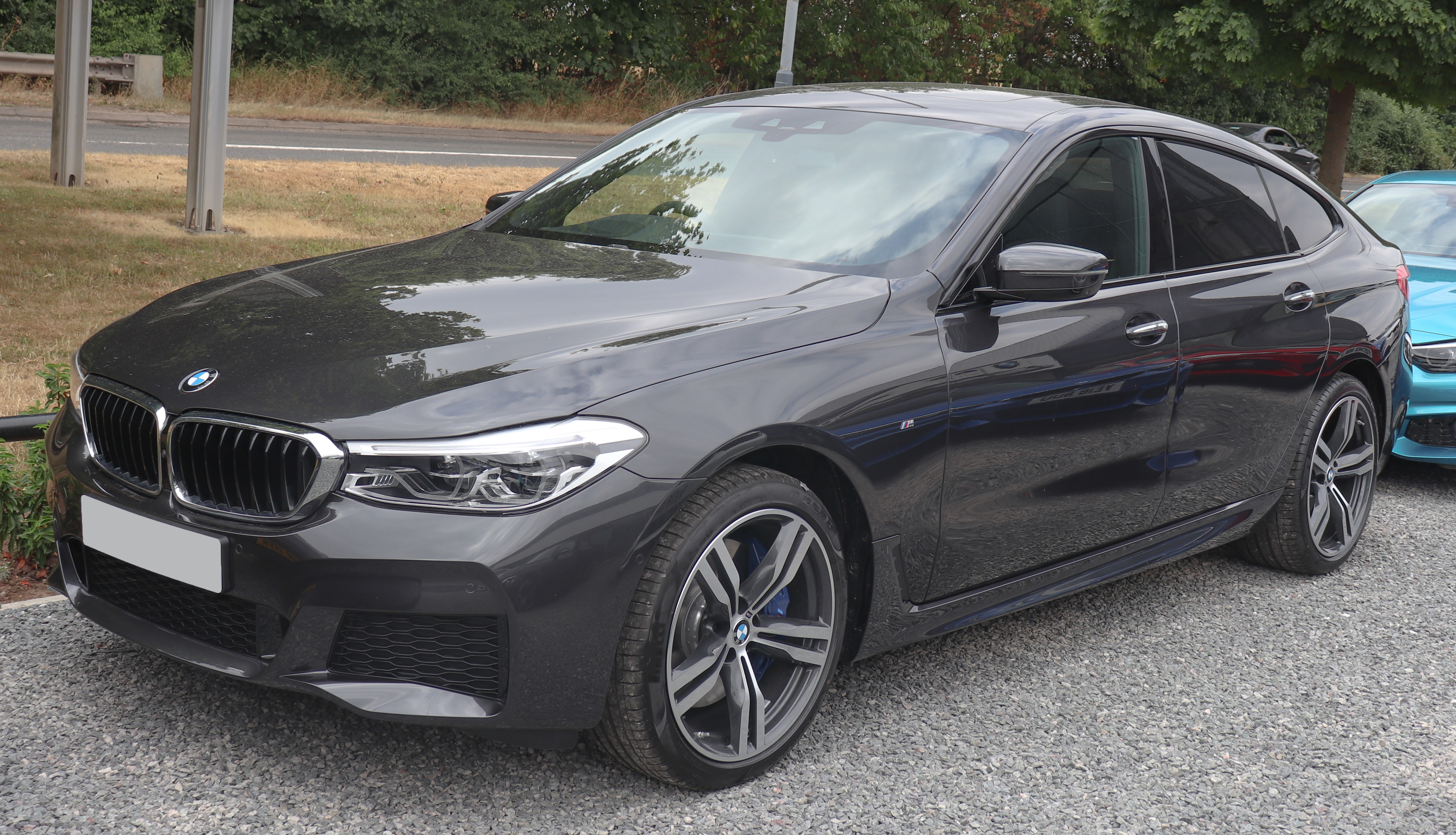 2018 BMW 630i GT M Sport Automatic 2.0 Front Taken in Leamington Spa